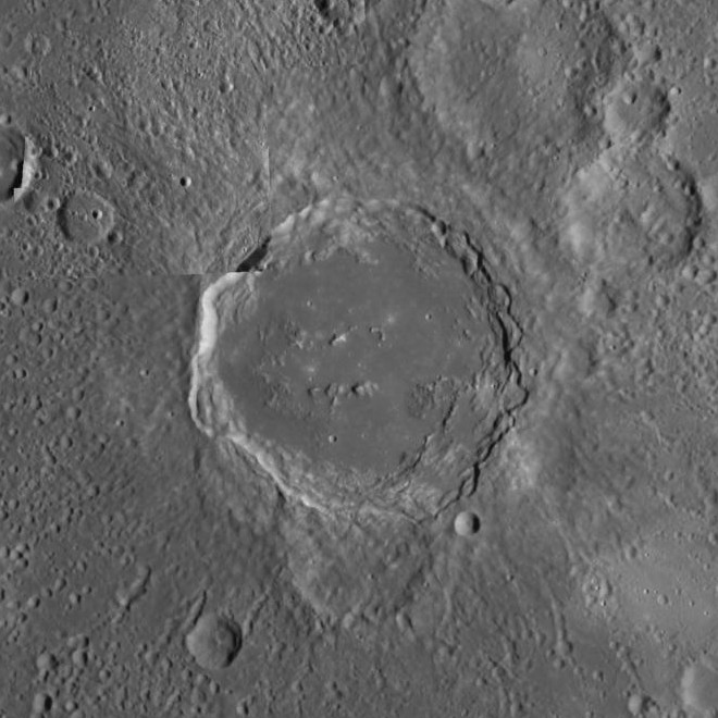 Firdousi crater, on Mercury. MESSENGER Wide Angle Camera mosaic. Image is approximately 217 km wide.